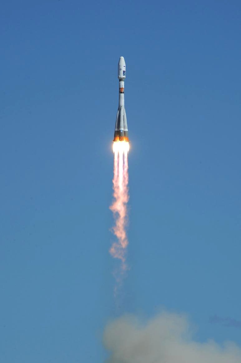 Launch of the Soyuz-2.1a from Vostochny 2016-04-28